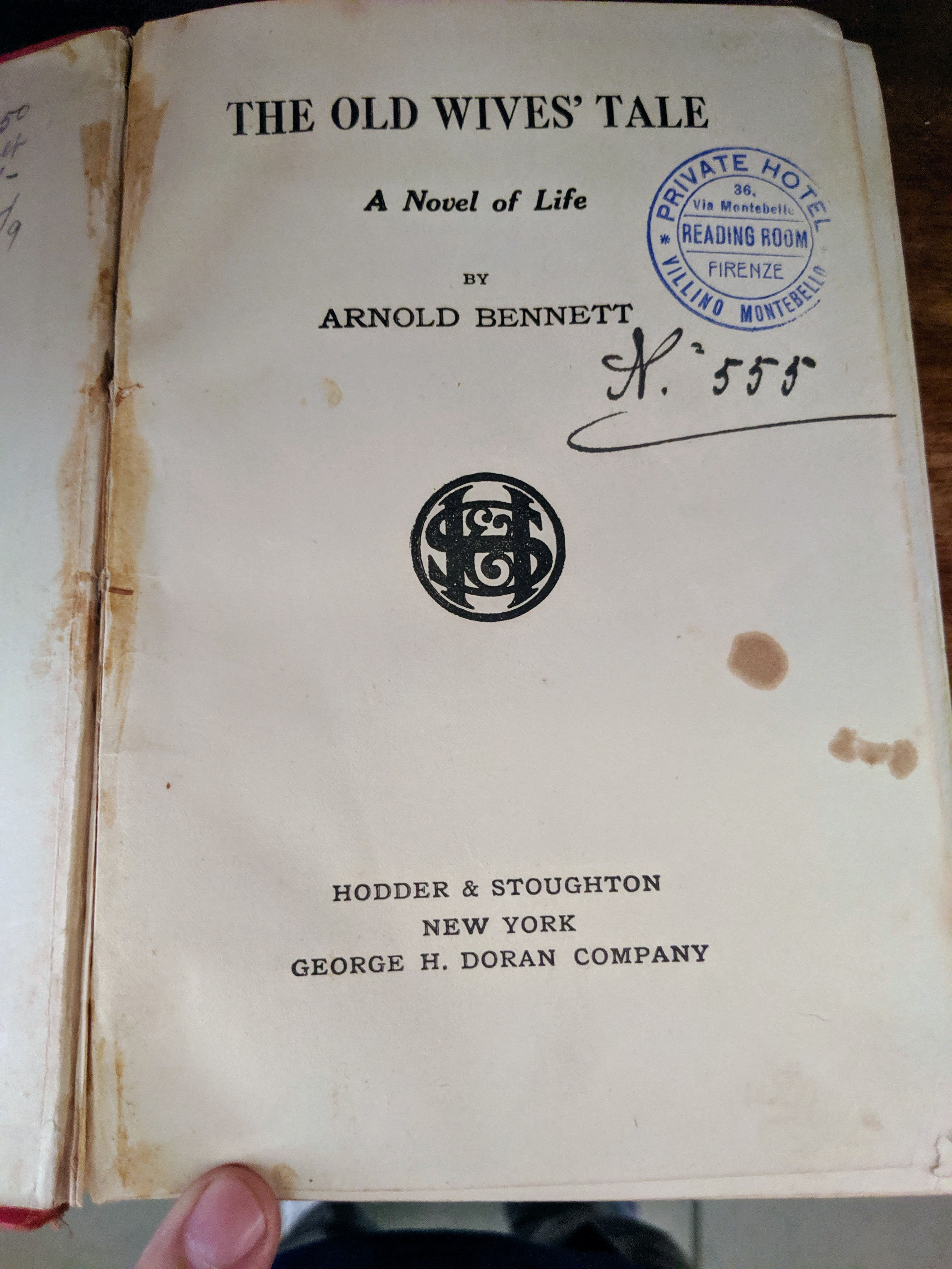 the old wives' tale